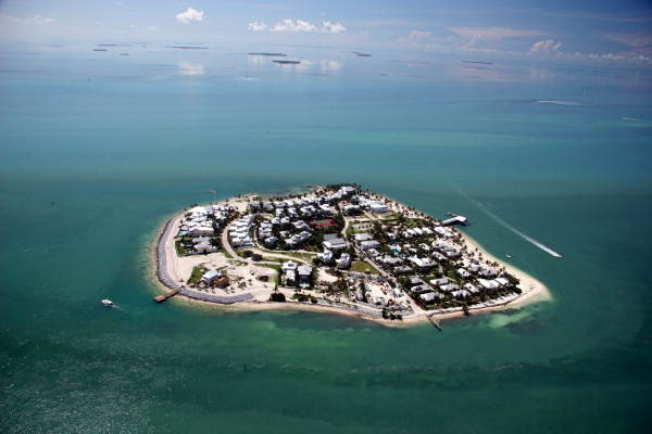 Local call number: DM6634 Title: Aerial view of Sunset Key, Key West Date: September 6, 2006 Physical descrip: 1 digital image - col. Series Title: Repository: 500 S. Bronough St., Tallahassee, FL 32399-0250 USA. Contact: 850.245.6700. Persistent URL